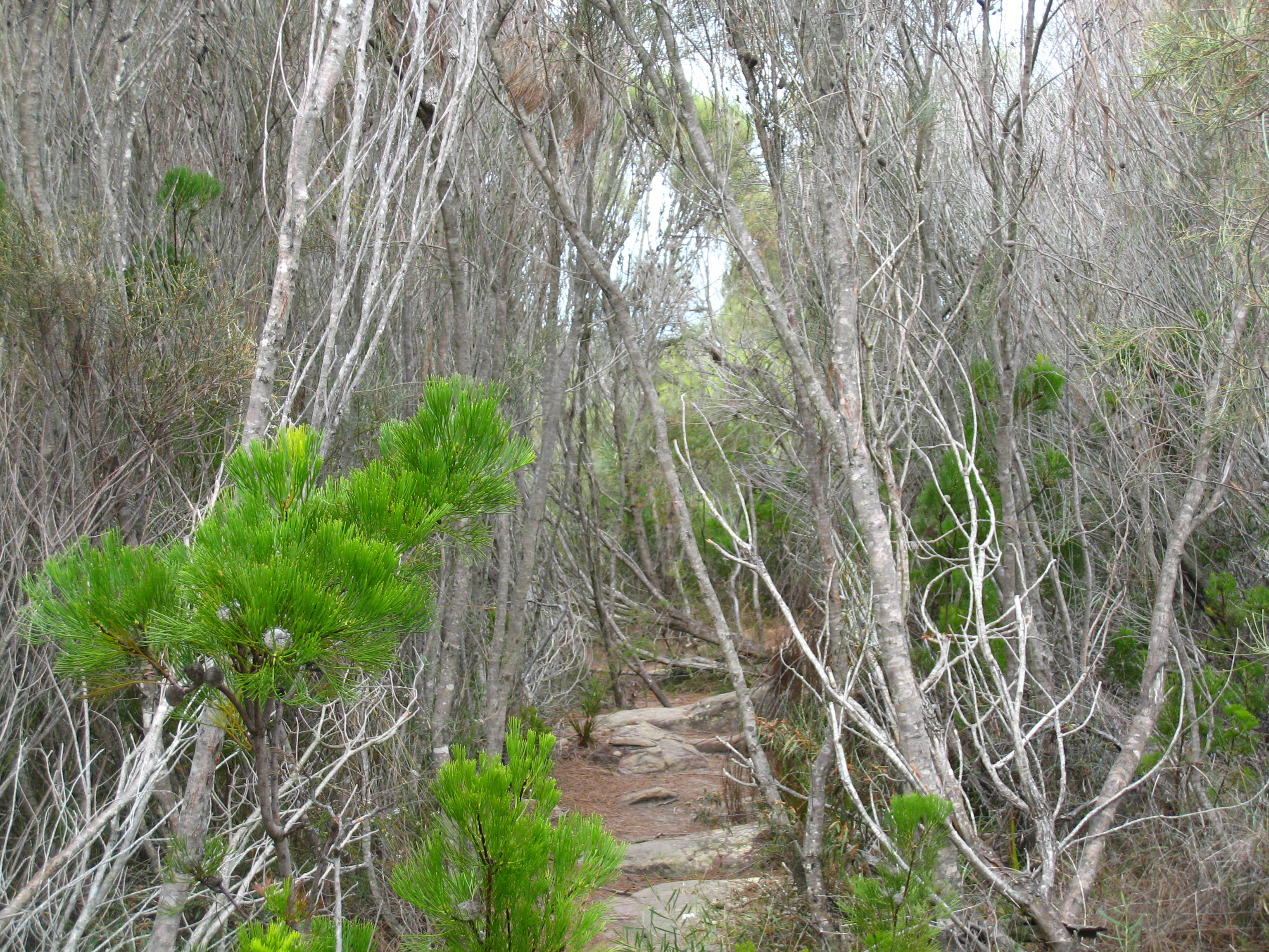 Barrenjoey track, beyond the lighthouse, 10 March 2018 (before the fire of 28/09/2013) Foreground green is Isopogon anethifolius, the grey trunks are casuarinas